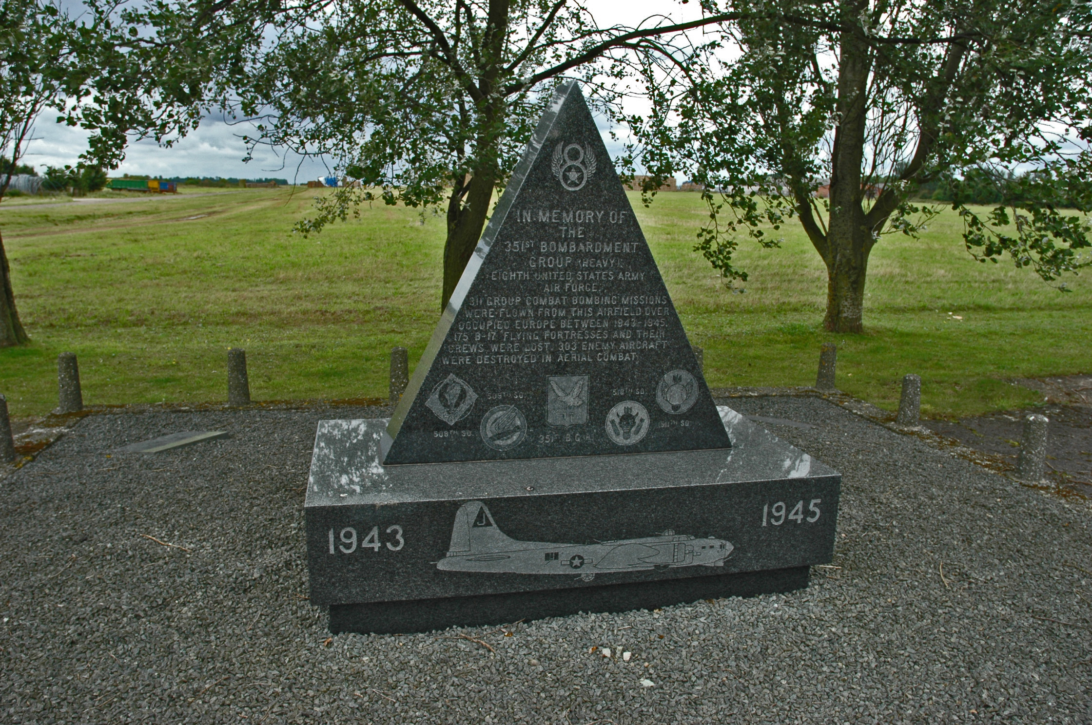 Memorial to the 351st Bomb Group, which stands on the site of the main runway of the WWII airfield RAF Polebrook.